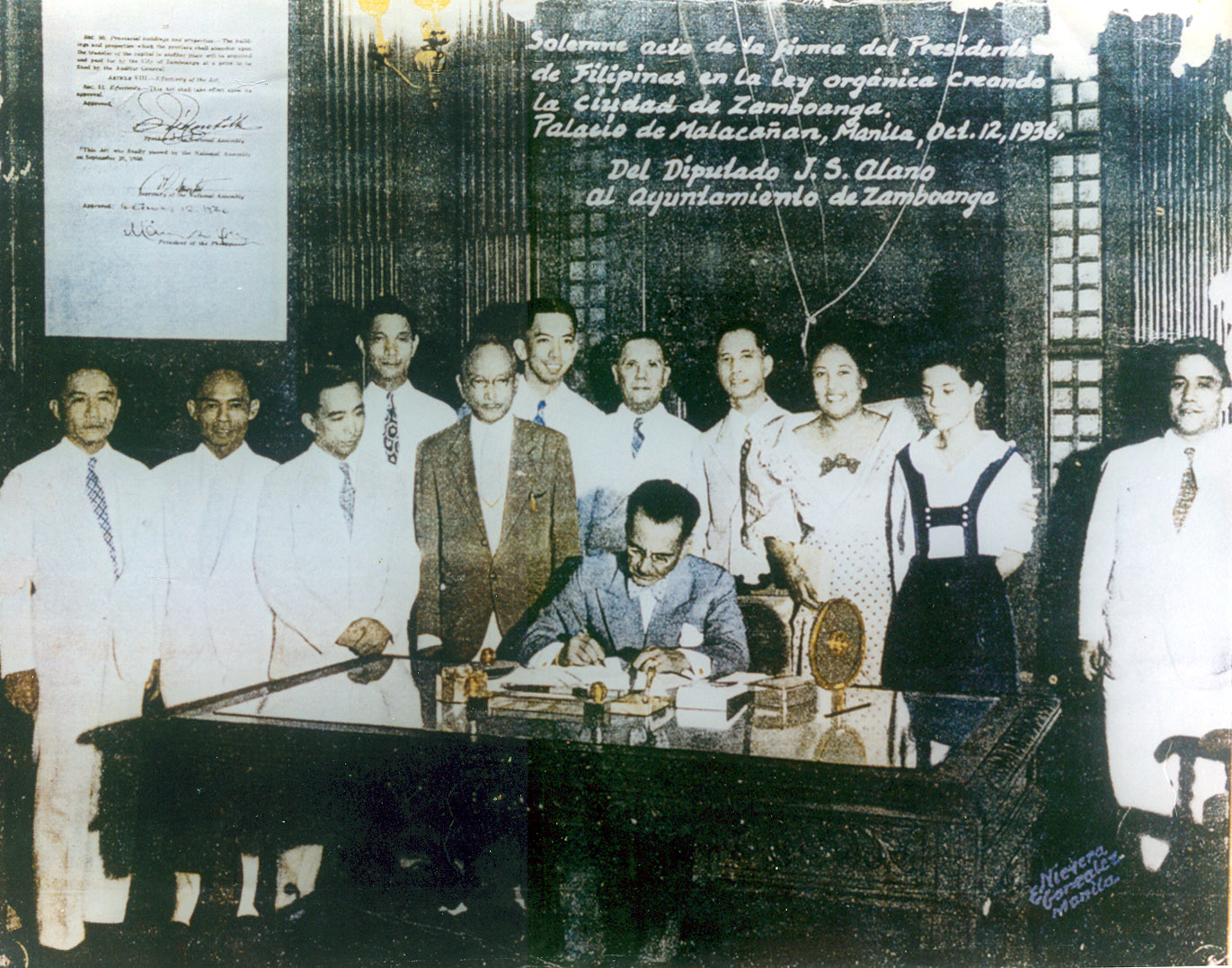 Official Signing Ceremony of the Charter of Zamboanga City, October 12, 1936